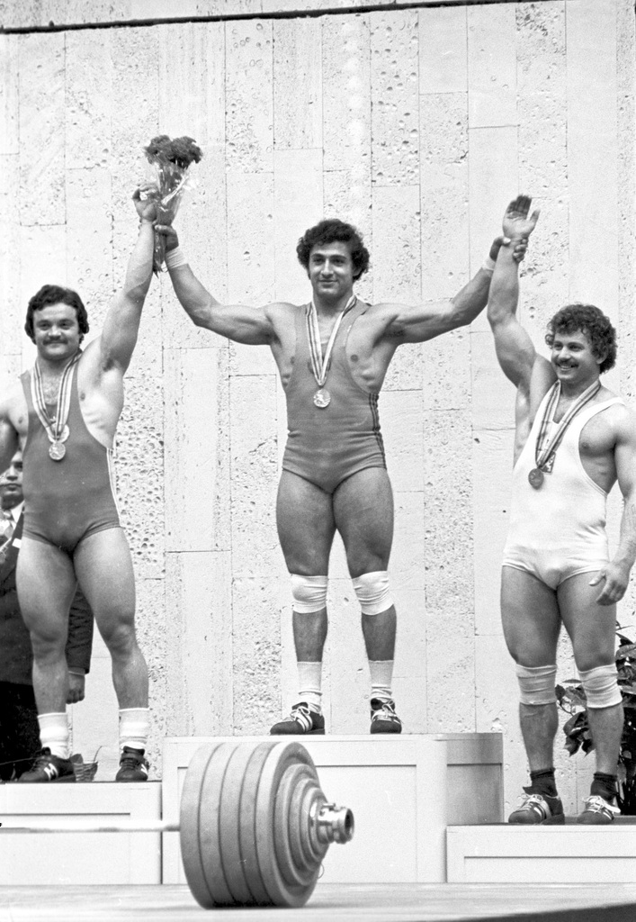 “1980 Olympics champion Yurik Vardanian”. Weightlifter Yurik Norairovich Vardanian (b. 1956) (USSR) on the pedestal. Weightlifting competition in the 82.5 kg weight category. XXII Olympic Summer Games (July 19-August 3).